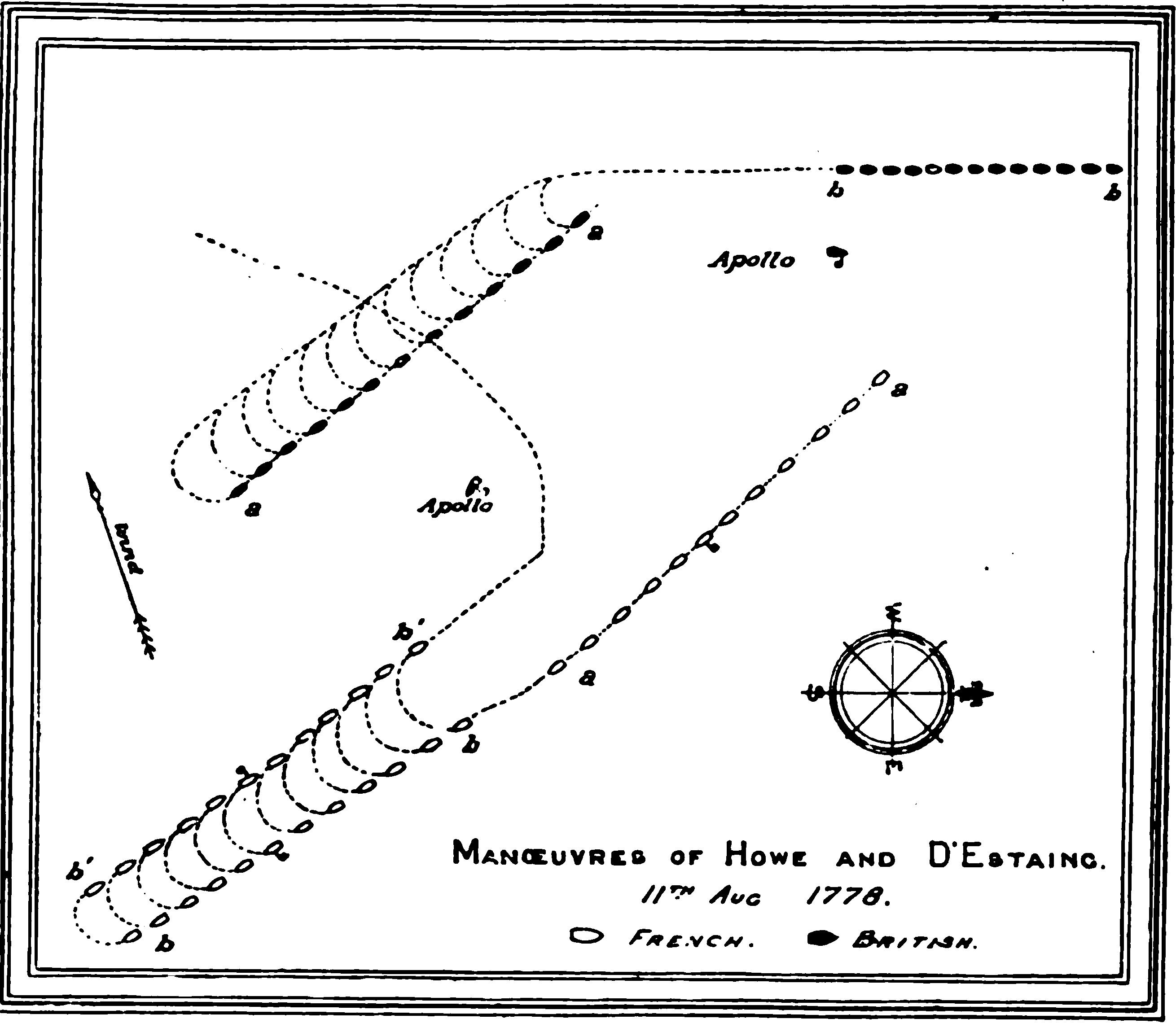 Howe vs d'Estaing, 11 August 1778